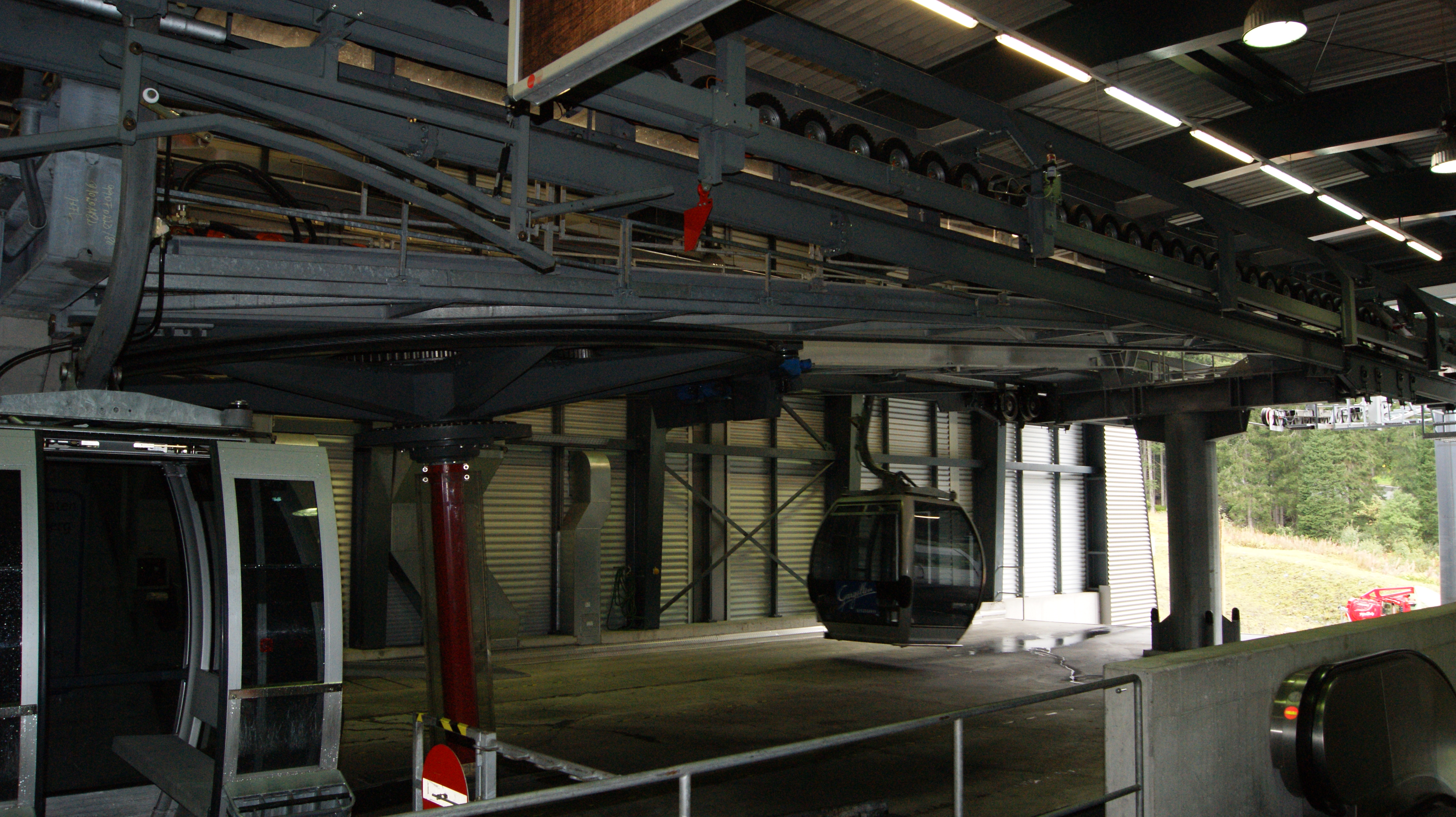 Valley station of the Schafbergbahn in Gargellen (Vorarlberg, Austria).